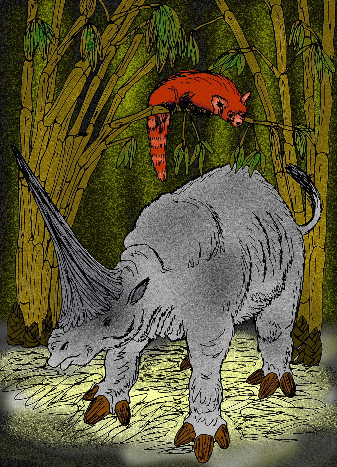 Reconstruction of the Miocene to Pliocene rhinoceros, Sinotherium lagrelli, of China.